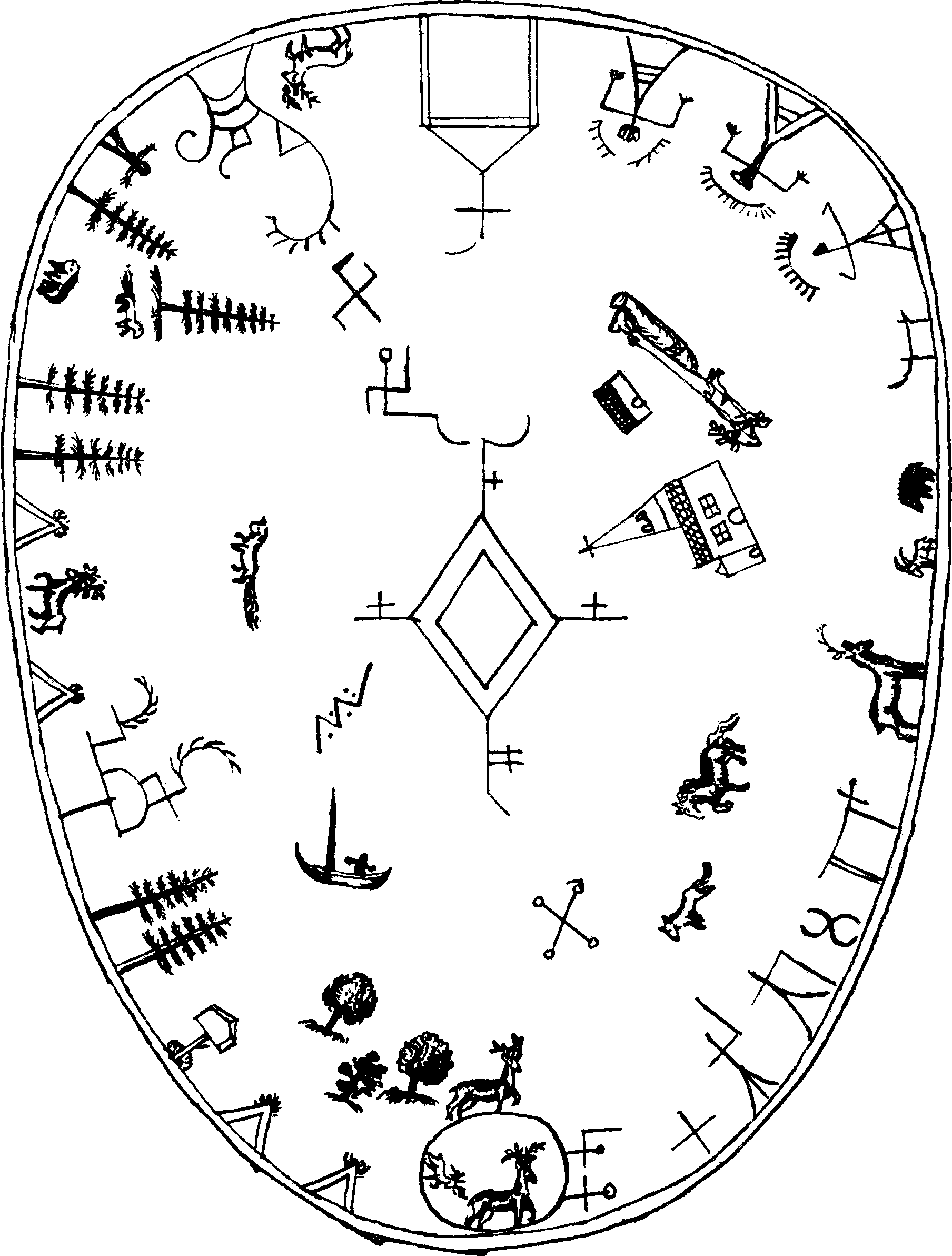 Sami drum, depicted and described in Erich Johan Jessen's book Afhandling om de Norske Finners og Lappers hedenske Religion; published in Copenhagen 1767 together with Knud Leem's Beskrivelse over Finmarkens Lapper.